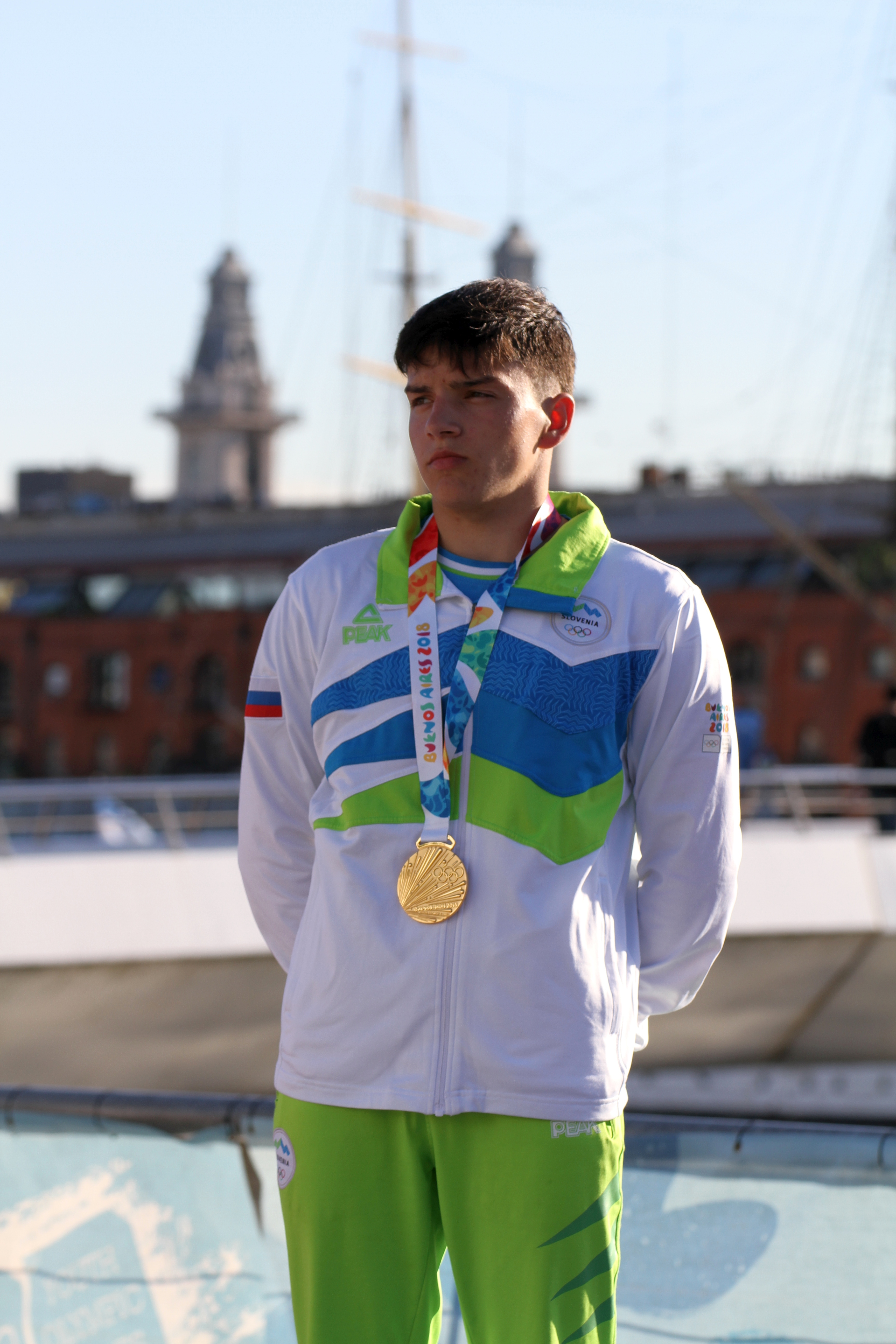 Canoeing at the 2018 Summer Youth Olympics at 16 October 2018 – Boys' K1 slalom Gold Medal Race: Lan Tominc (Slovenia, gold) - Guan Changheng (China, silver) - Tom Bouchardon (France, bronze)